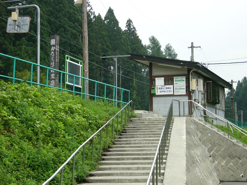 Minami-Kamishiro station of East Japan railway company (JR East) Oito line, Hakuba village, Nagano prefecture Japan.